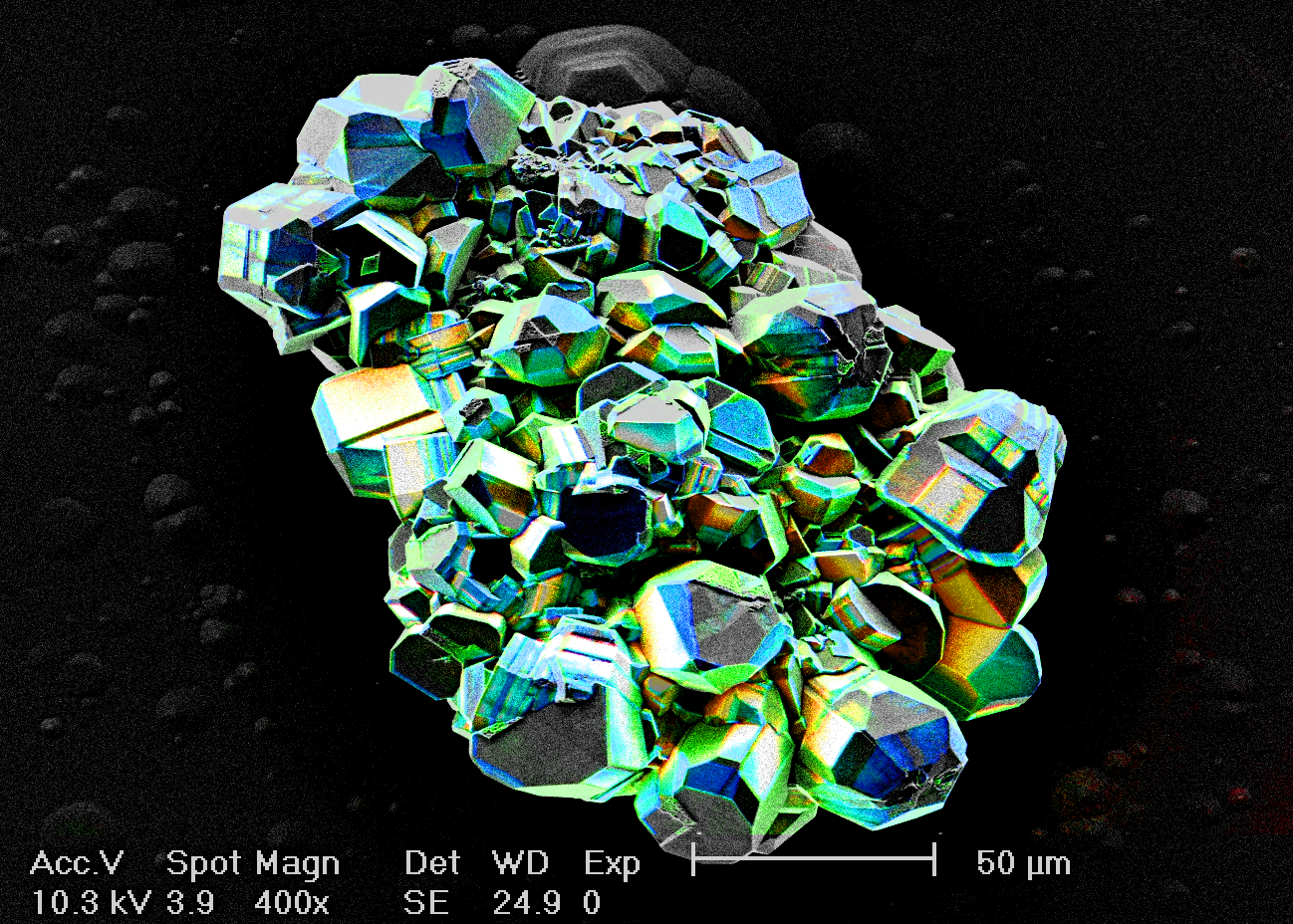 Indium-gallium nitride is a semiconductor alloy that emits light when irradiated by energetic particles. A small crystal cluster has accidentally grown during the MOVPE process. The lightness corresponds to its standard SEM image, whereas the colour overlayers were added according to the light emitted under the electron beam. Blue and green channels are roughly natural colours, while red encodes the ultraviolet emission. The image demonstrates that InGaN/GaN structures are highly anisotropic, and so are their cathodoluminescence properties.Image taken in the Institute of Physics, Czech Academy of Sciences, using Philips XL30 ESEM equipped with custom color-resolved cathodoluminescence photomultiplier setup. Author acknowledges the great help of R. Horešovksý.